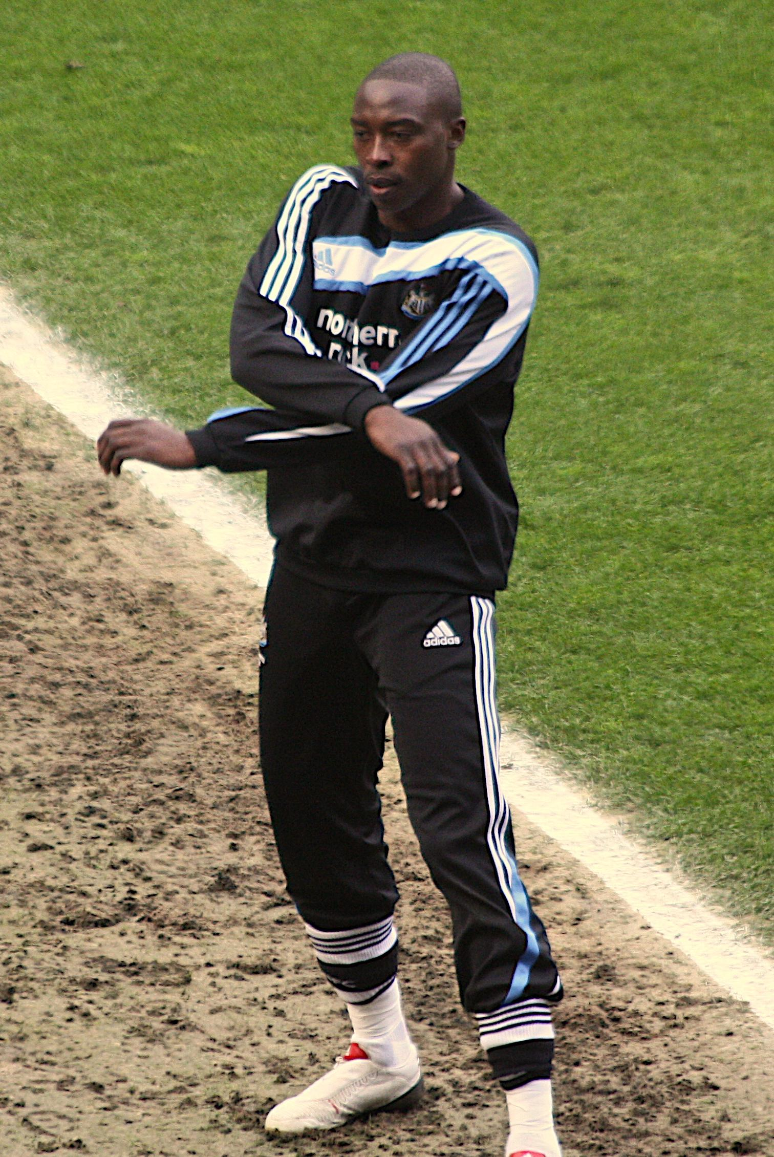 Shola Ameobi warming up against Ipswich Town.